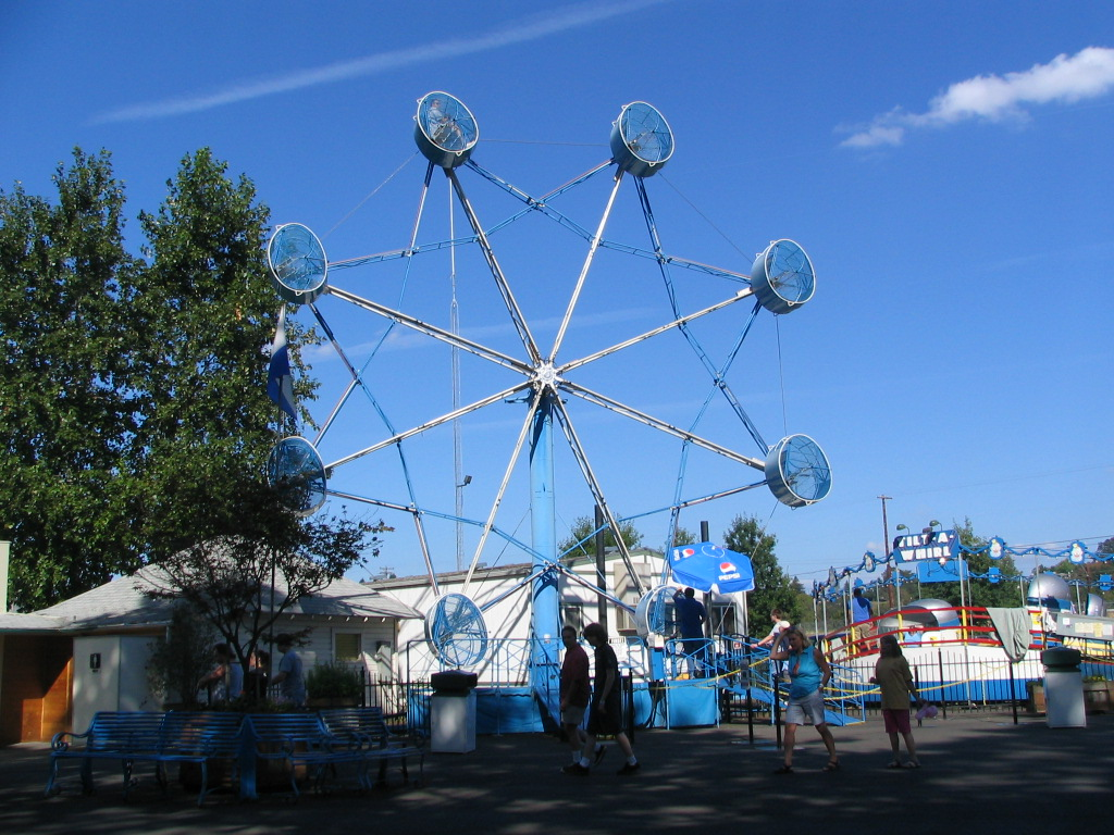 A Rock O' Plane, photographed on 22 August 2005 at Oak's Park in Portland, Oregon.